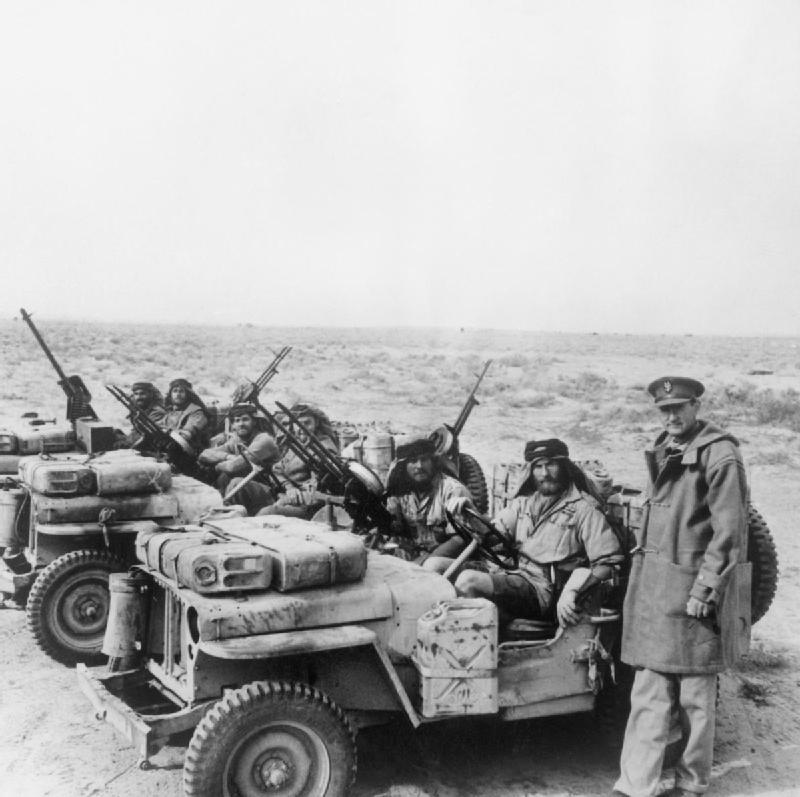 Colonel David Stirling, founder of the Special Air Service, with an SAS jeep patrol in North Africa, 18 January 1943. The Axis Offensive 1941 - 1942: A Special Air Service jeep patrol is greeted by its commander, Colonel David Stirling, on its return from the desert.